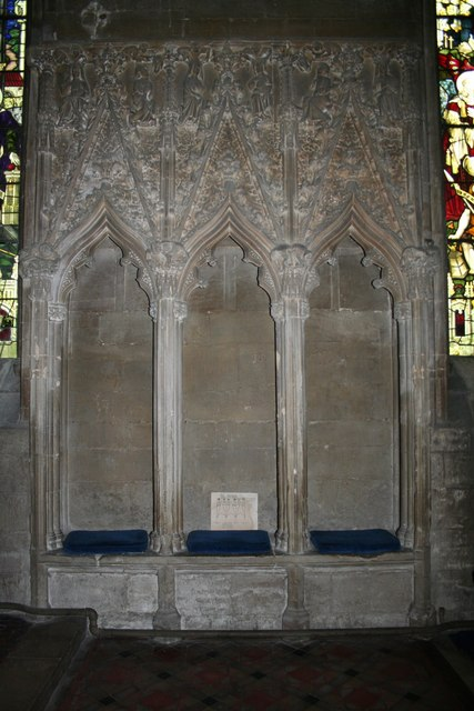 Ornate mid-14th century sedilia in St.Andrew's church, Heckington, with carvings showing Jesus, the Virgin Mary, Saints Catherine, Margaret, Barbara and other images.